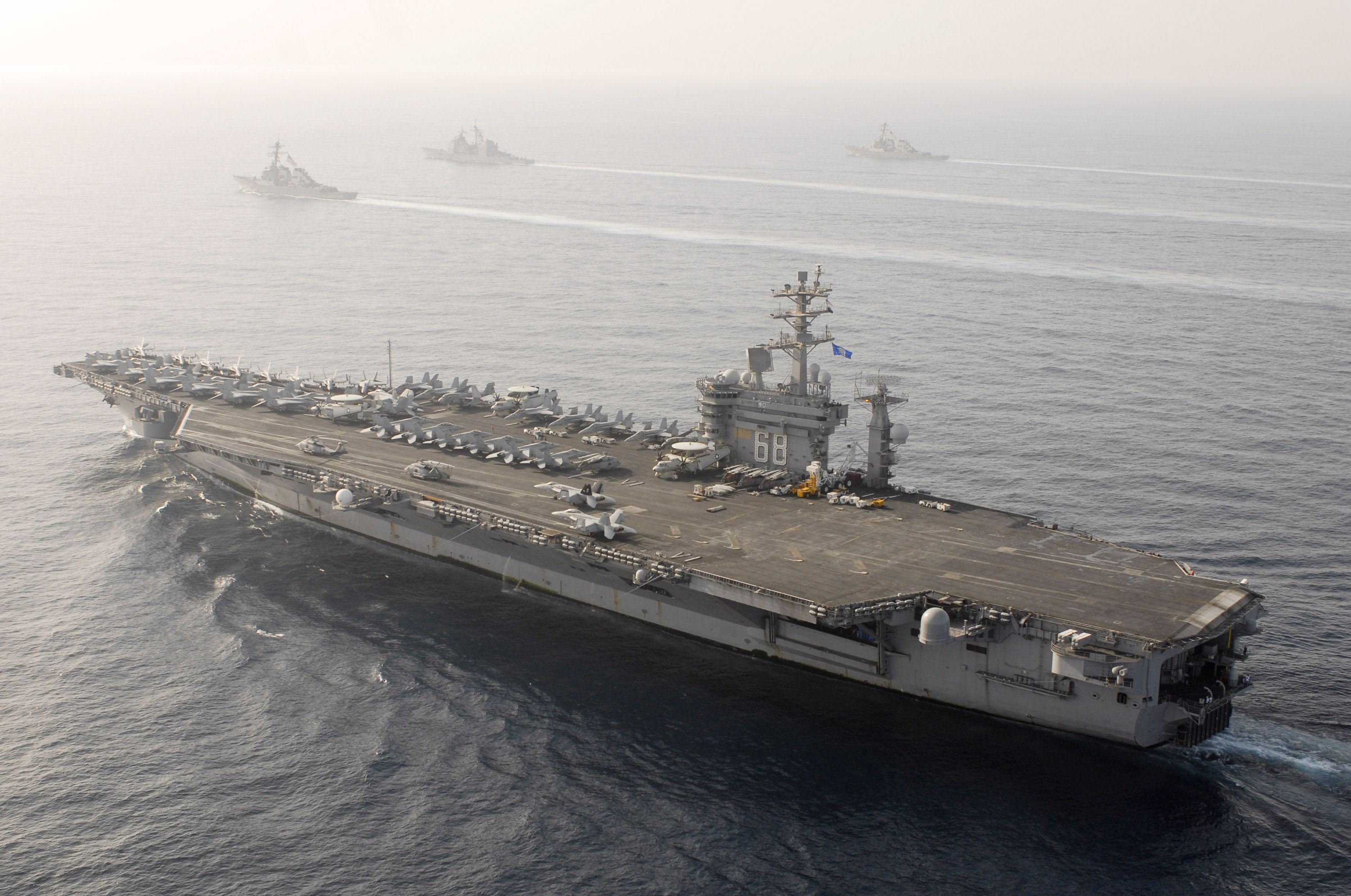 ARABIAN SEA (May 22, 2007) - USS Nimitz (CVN 68) along with (from top left to right) USS Higgins (DDG 76), USS Antietam (CG 54) and USS O'Kane (DDG 77) transit through the Gulf of Oman. All these ships are part of two different strike groups; the John C. Stennis Carrier Strike Group and Nimitz Carrier Strike Group, which are on regularly scheduled deployments in support of Maritime Operations. Maritime Operations help set the conditions for security and stability, as well as complement counter-terrorism and security efforts to regional nations. U.S. Navy photo by Mass Communication Specialist 1st Class Denny Cantrell (RELEASED)